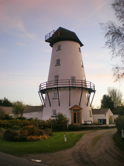 Damside Windmill, near to Pilling, Lancashire, Great Britain.